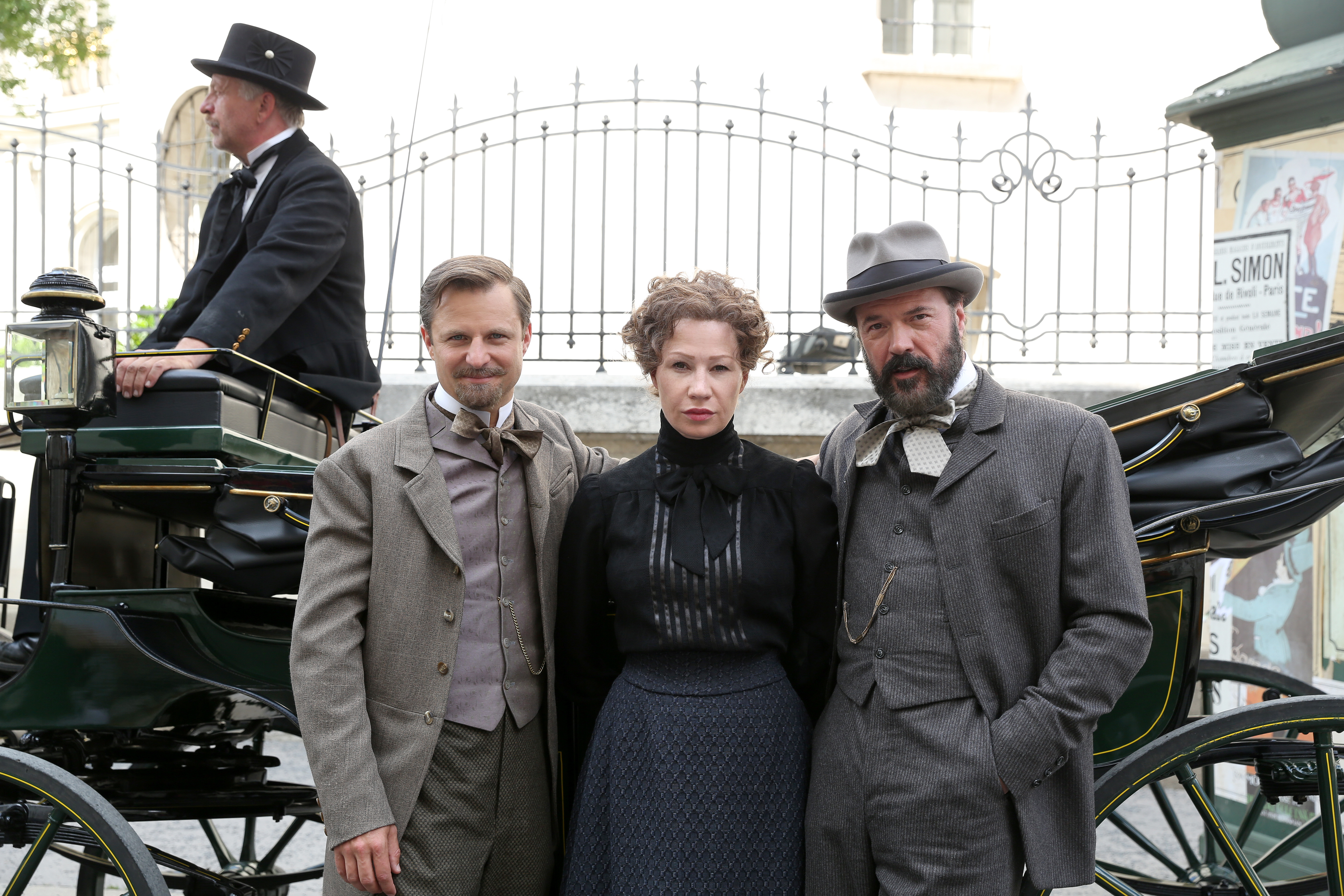 Birgit Minichmayr as Bertha von Suttner, Sebastian Koch (r.) as Alfred Nobel and Philipp Hochmair as Arthur von Suttner on the filming location of the movie Madame Nobel in and around the Embassy of France in Vienna (Vienna, Austria).